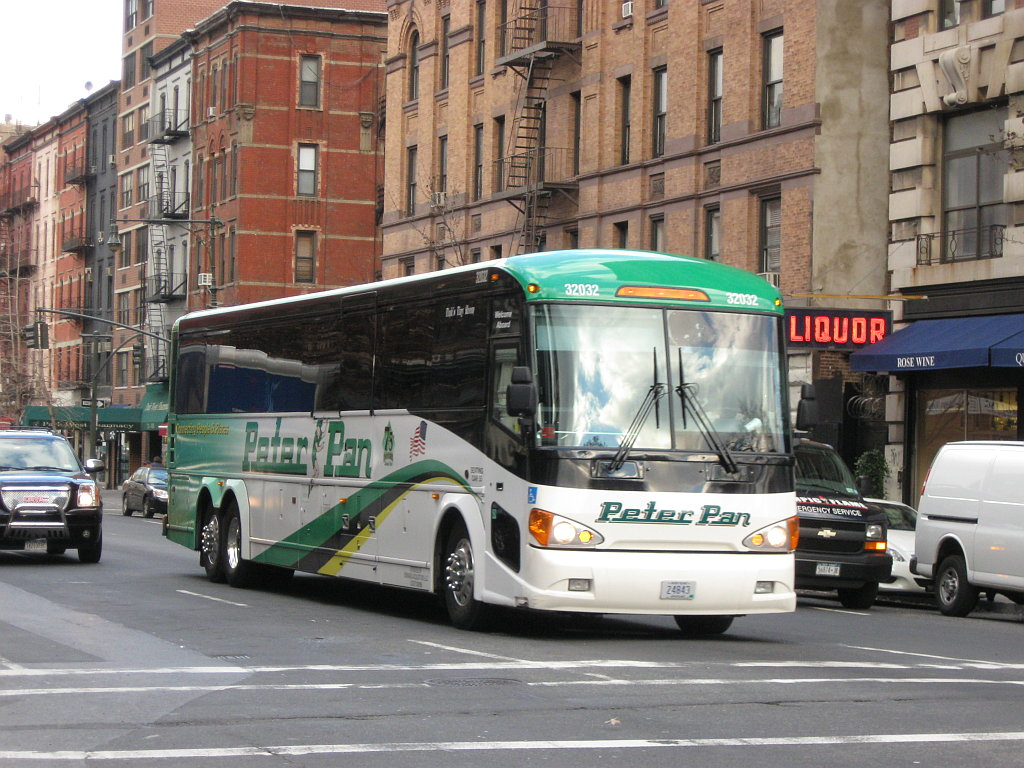 Peter Pan #32032 arrives in New York City from Providence.